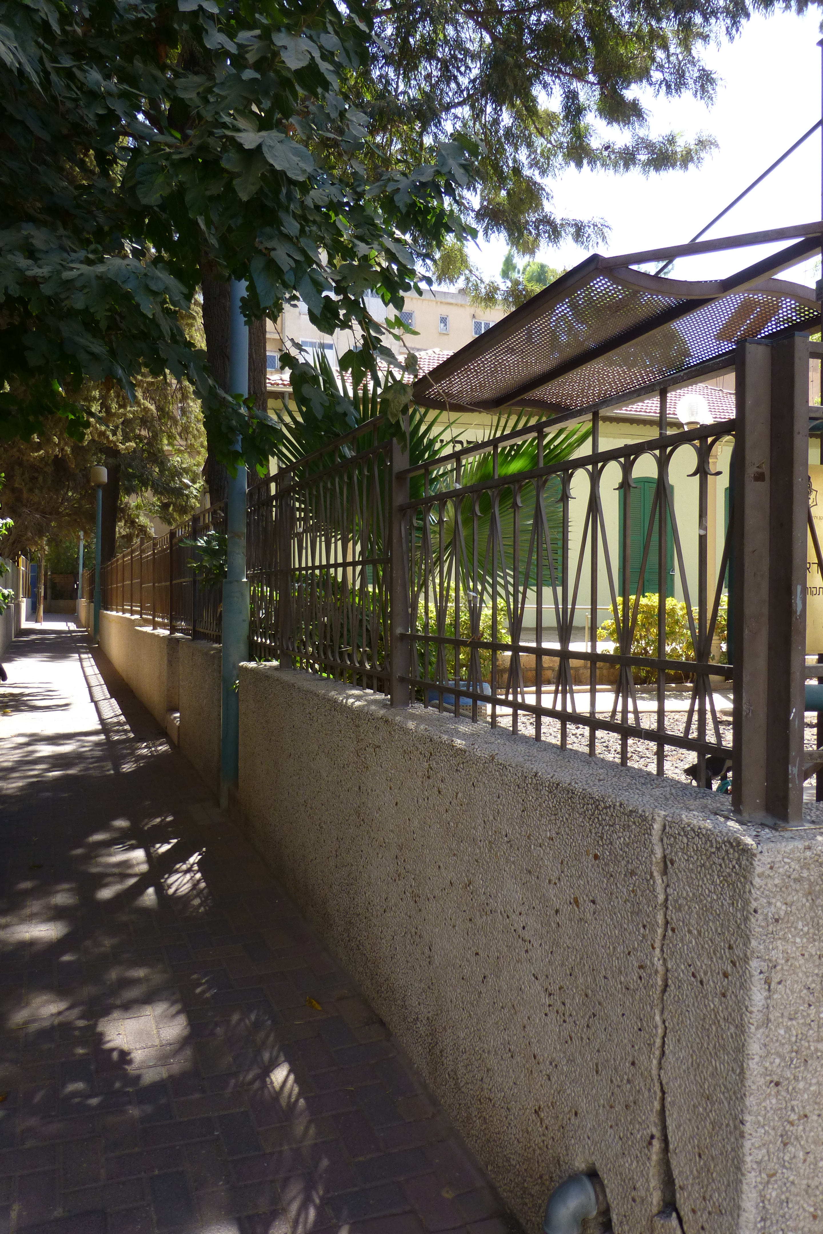 Avraham Shapira's House